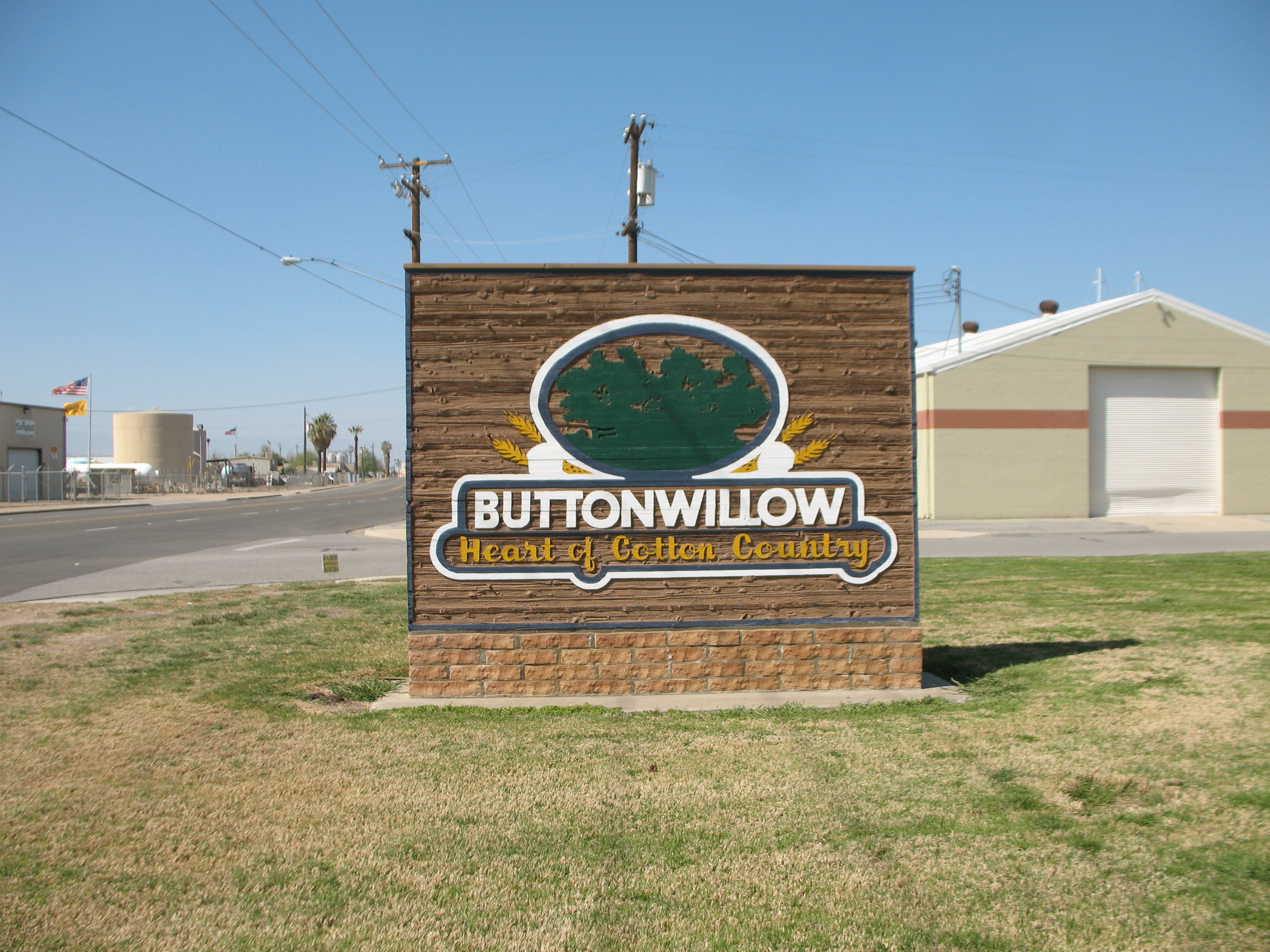 The entrance to the city